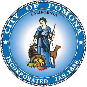 The official city seal of Pomona, California. The image is from the official website of the City of Pomona, which makes it public domain.